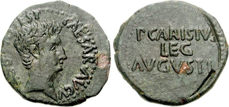 Augustus. 27 BC-AD 14. Æ As (12.51 g, 10h). Spanish mint - Emerita. P. Carisius, legate. Struck 23 BC. Bare head right P CARISIV[S]/LEG/AVGVSTI in three lines. RIC I 20.